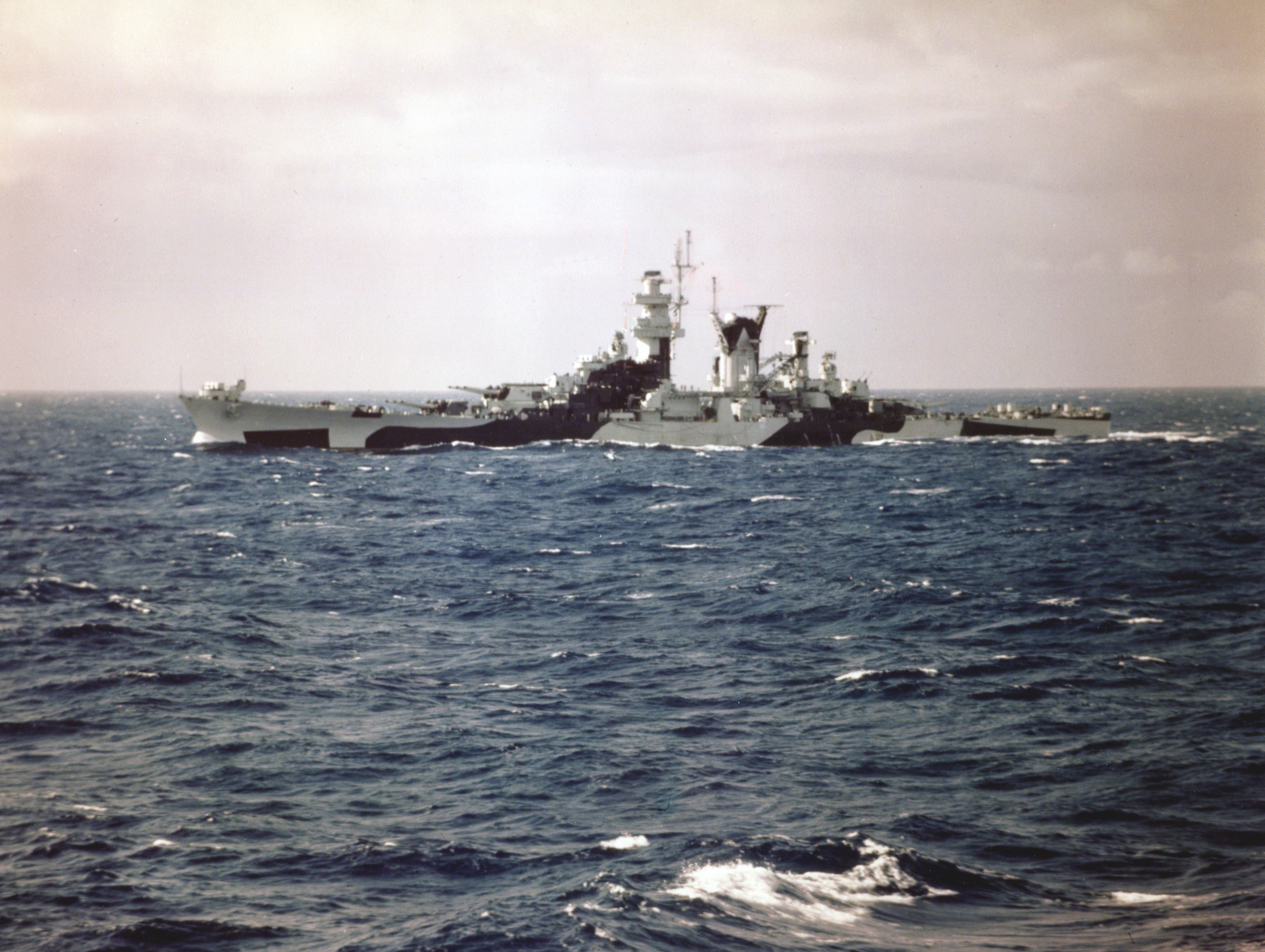 The U.S. Navy large cruiser USS Alaska (CB-1) photographed from USS Missouri (BB-63) off the U.S. East Coast during their shakedown cruise together in August 1944. Note her Measure 32 camouflage.